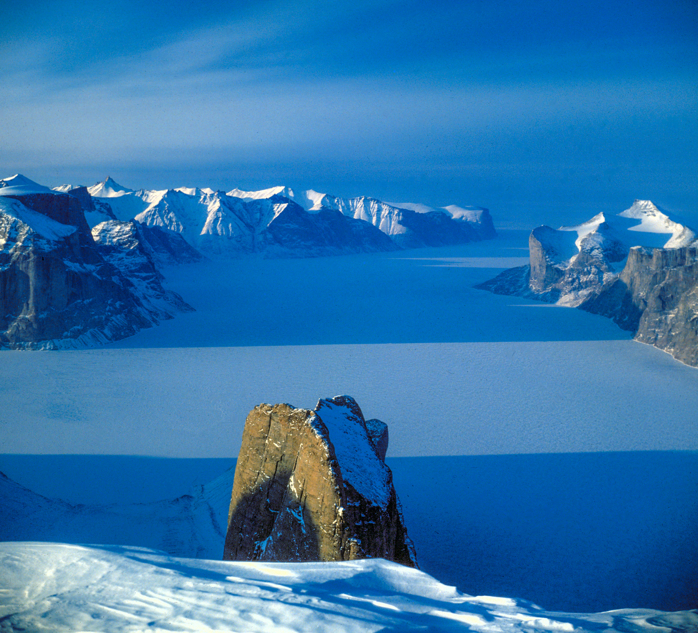 Broad Peak Summit on Baffin, Island, Canada